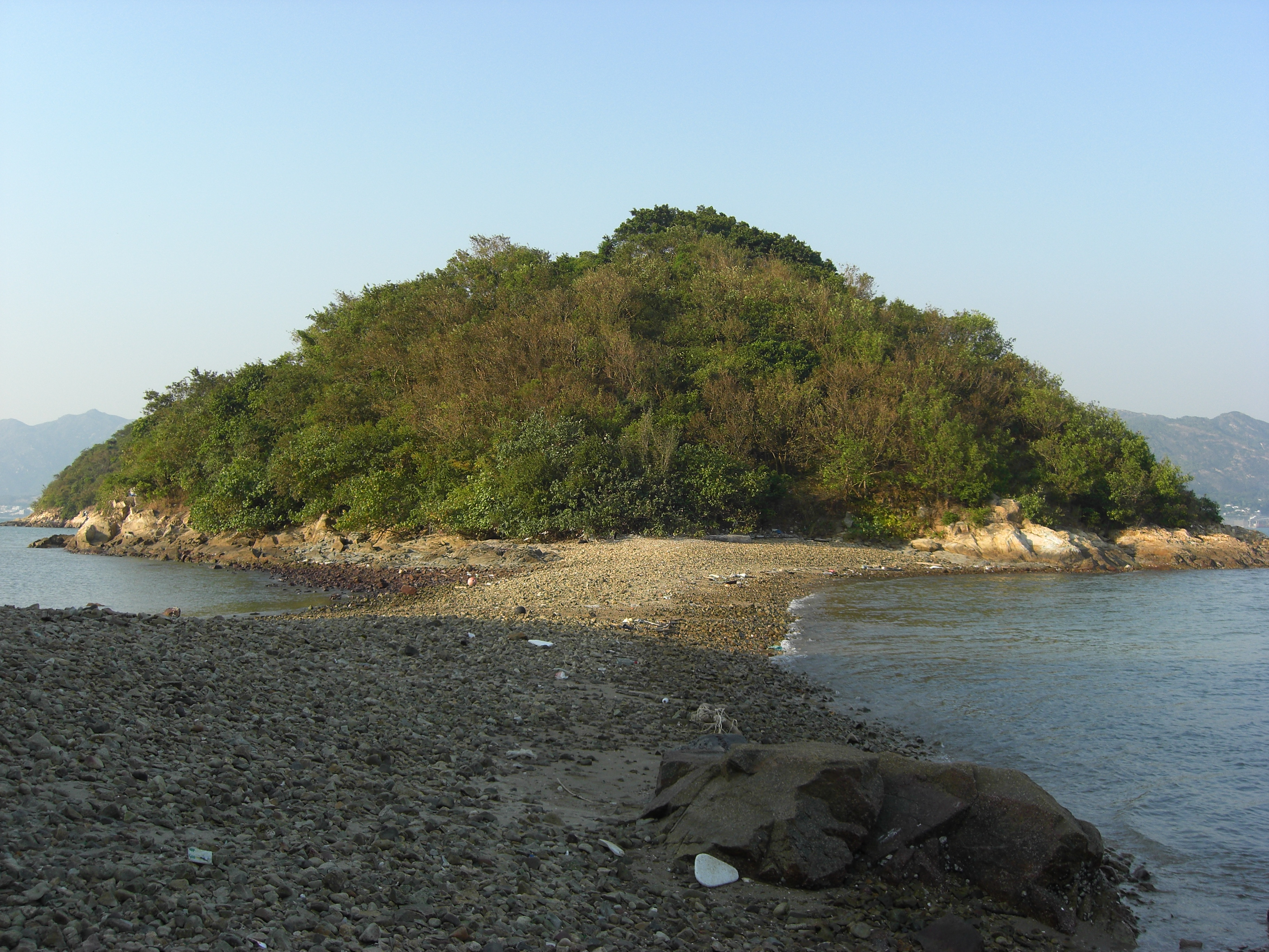 Cheung Sok with sandbank linked to Yam O